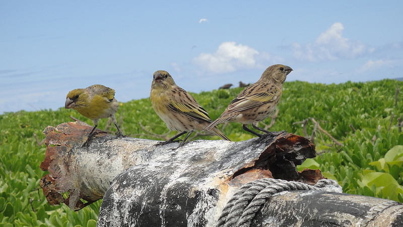 Three Laysan Finchs on the island of Laysan, Northwestern Hawaiian Islands, USA.